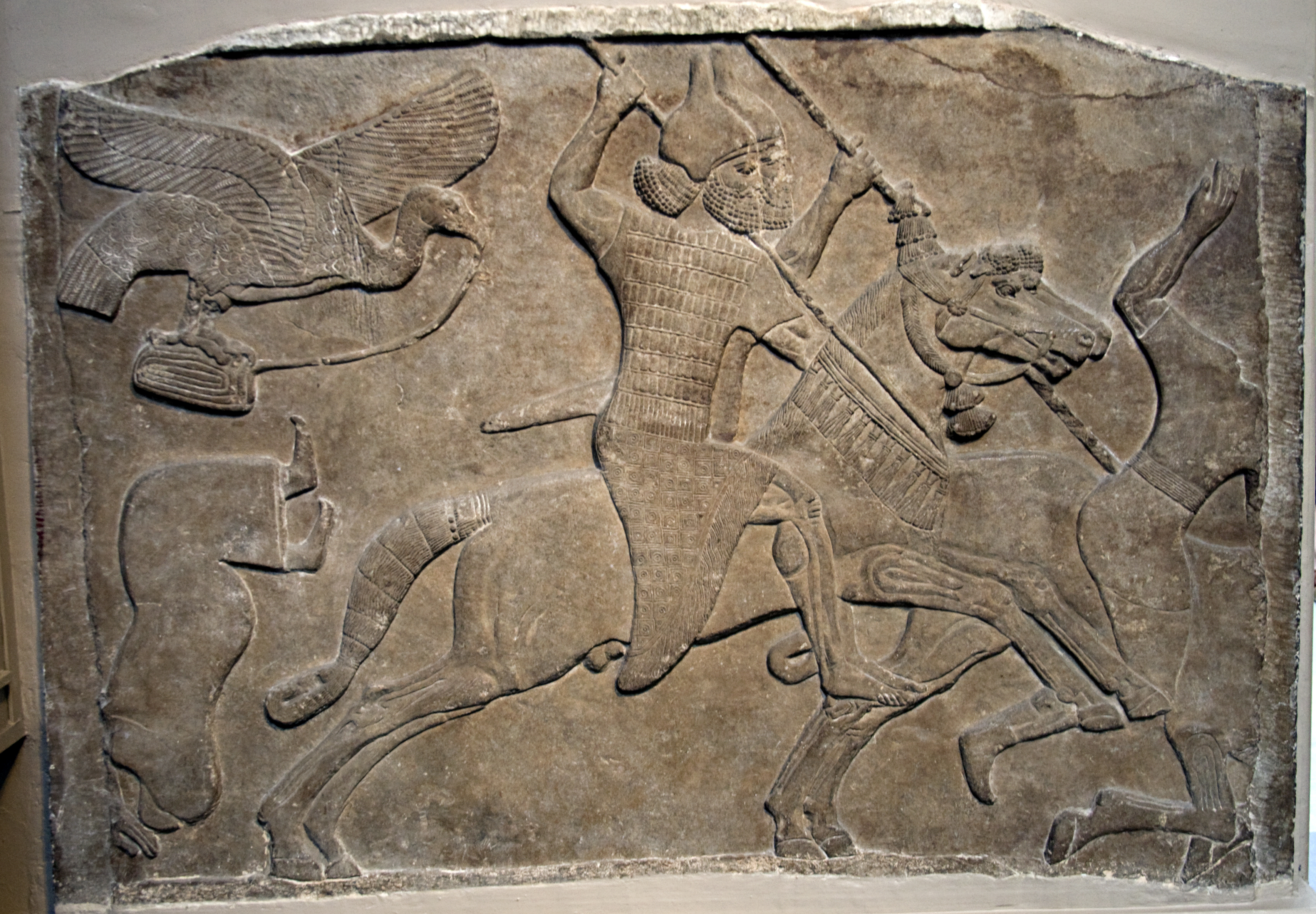 Assyrian relief of a horseman from Nimrud, now in the British Museum. "Battle scene, Assyrian, about 728 BC. From Nimrud, Central Palace, re-used in South-West Palace." and "WA 118907" See BM database entry for more details.